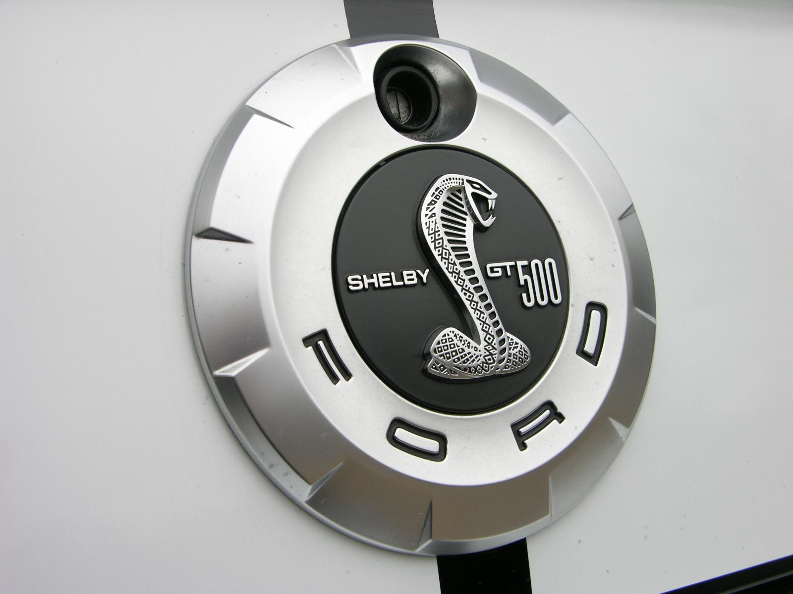 2008 Ford Mustang Shelby GT500